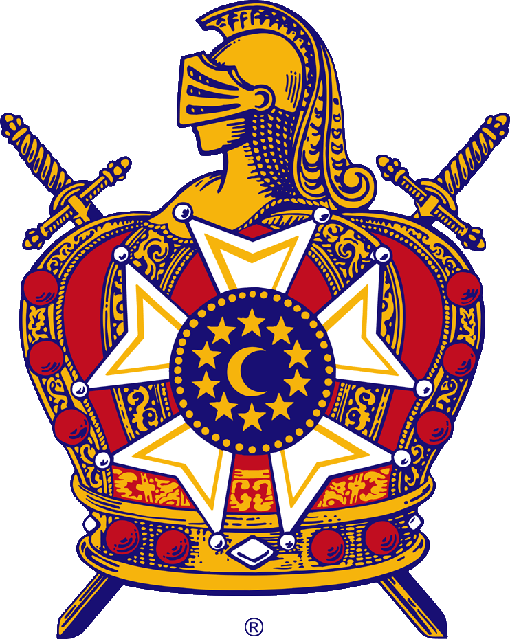 Order of DeMolay emblem